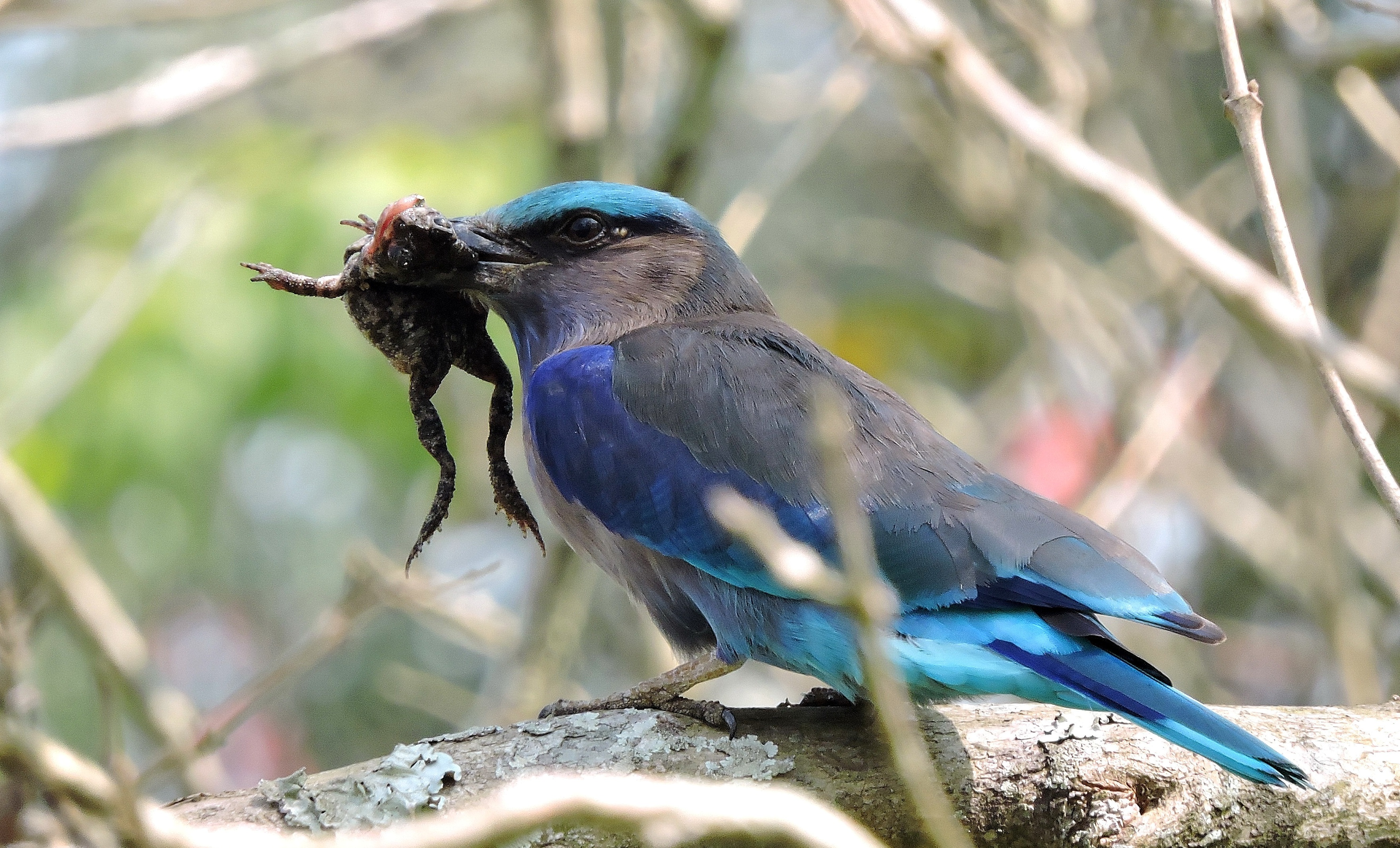 The bird Indochinese Roller Coracias affinis, also known as Neelkanth in Hindi, is a State bird of many Indian States. Here this bird grabbed a frog around its home at Kaziranga National Park (Assam) and displayed the catch for a while before flying off to privacy.